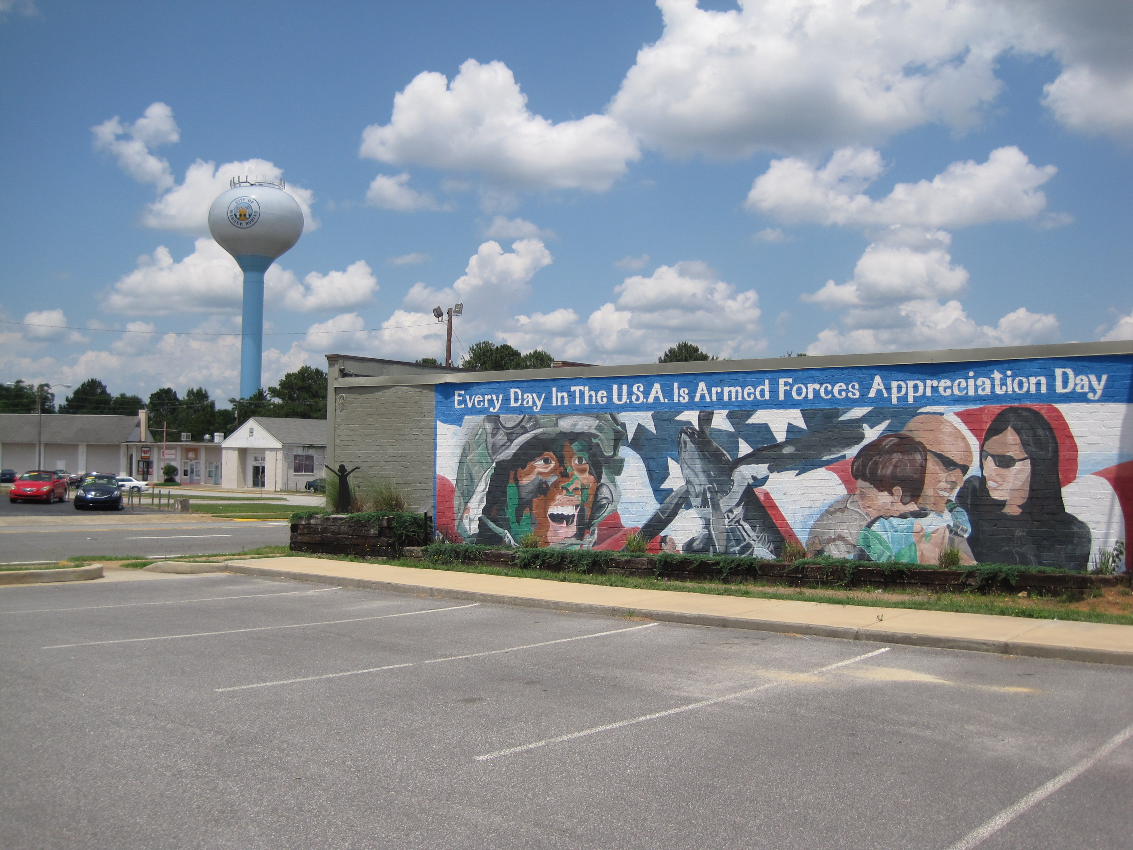 Patriotic mural on building in Commercial Circle